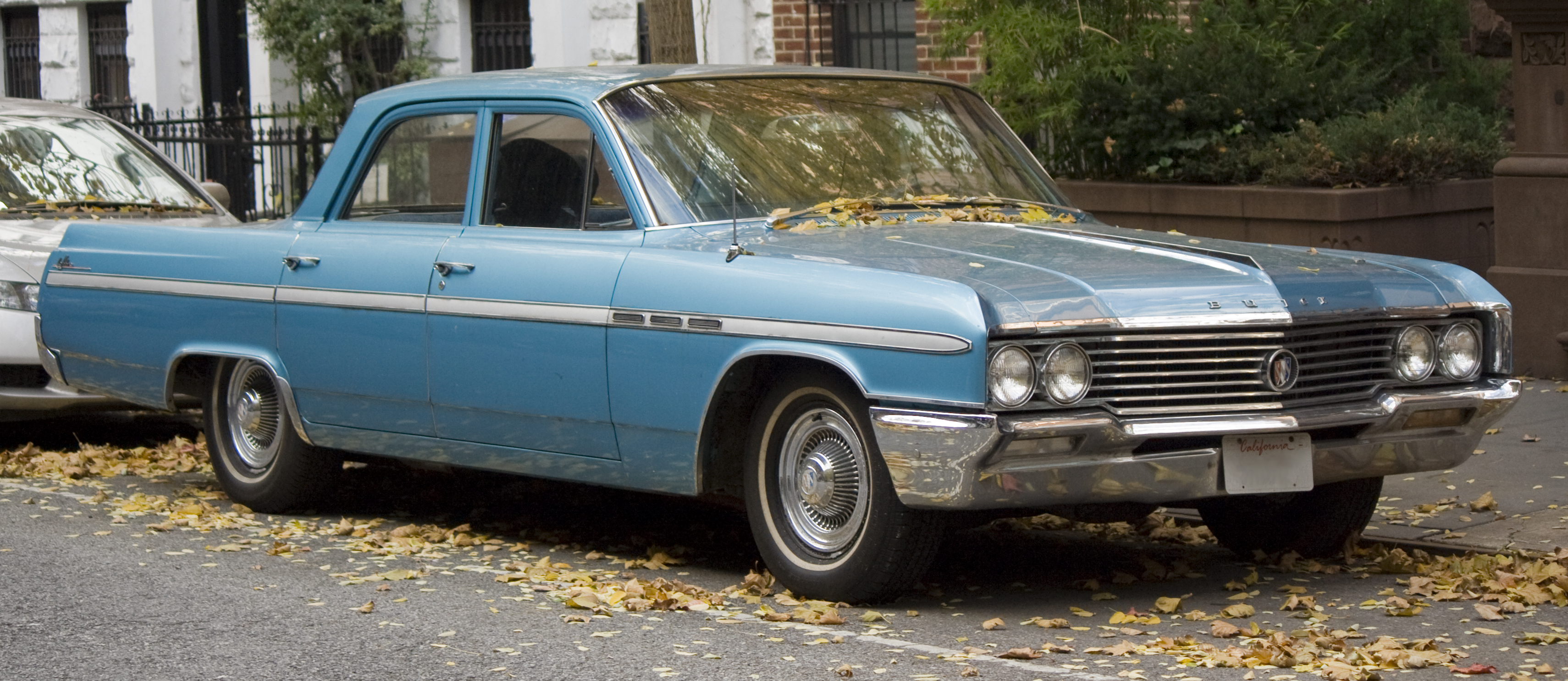 1964 Buick LeSabre Custom Sedan (4469) - this, the slightly more luxurious 'Custom' version, features full-length side moldings, whereas the regular LeSabre only received a narrow moulding along the rear third of the body.